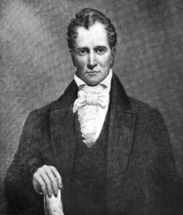 Gideon Tomlinson, Connecticut Congressman, Governor, US Senator